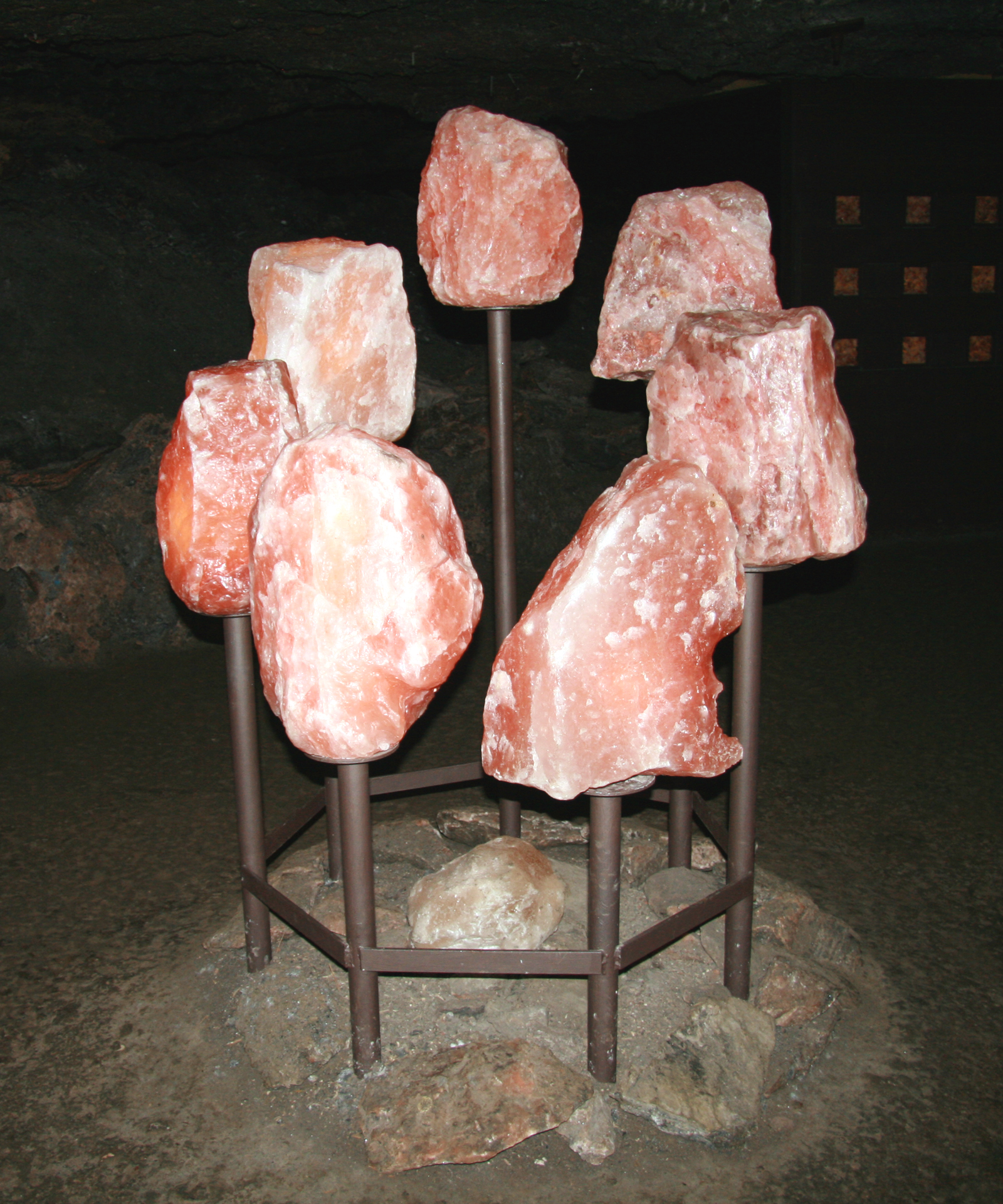 Inside of Hallstatt saltmine, crystals of halite, Upper Austria